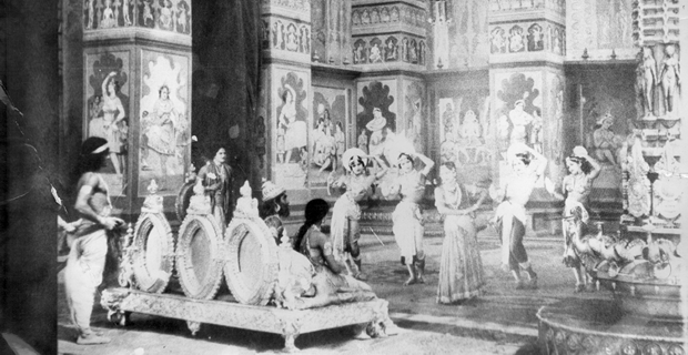 A screen shot from the film Sairandhari (1933).